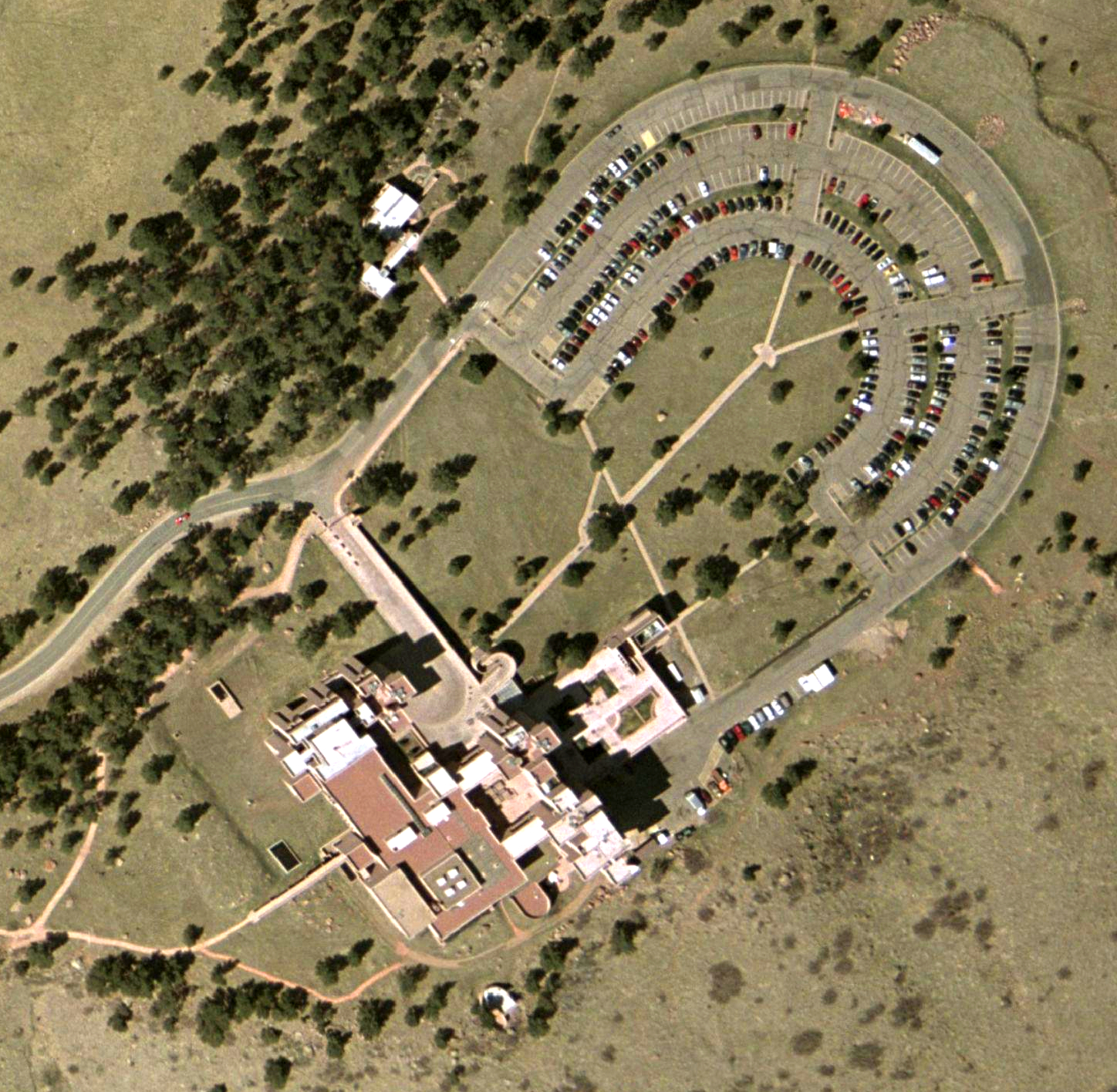 Aerial image of the National Center for Atmospheric Research Mesa Lab Campus.